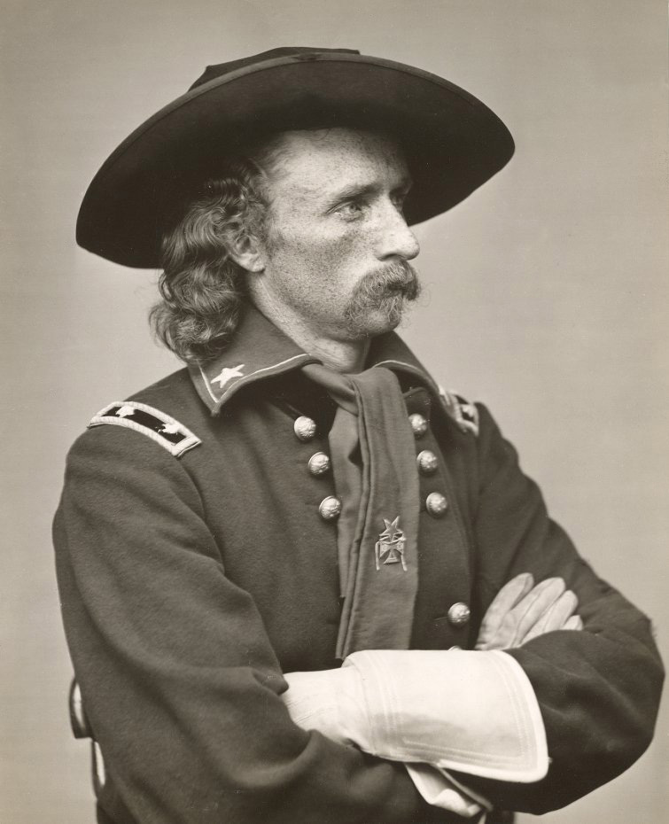 George Armstrong Custer, U.S. Army major general, killed in battle at the Battle of the Little Bighorn.